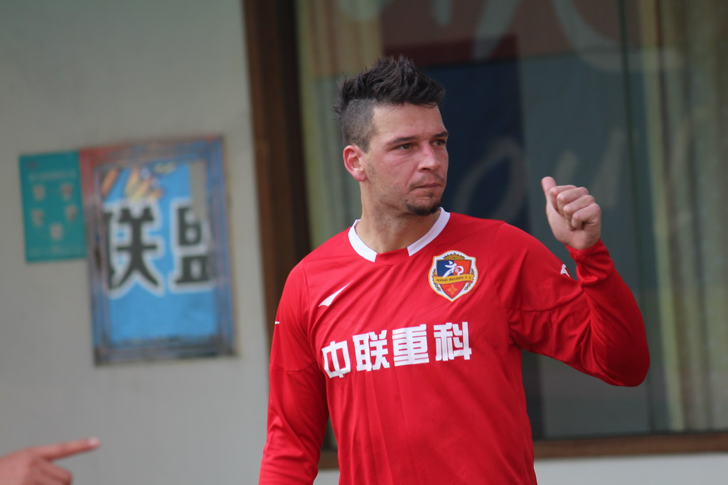 Leandro Netto In Hunan Billows